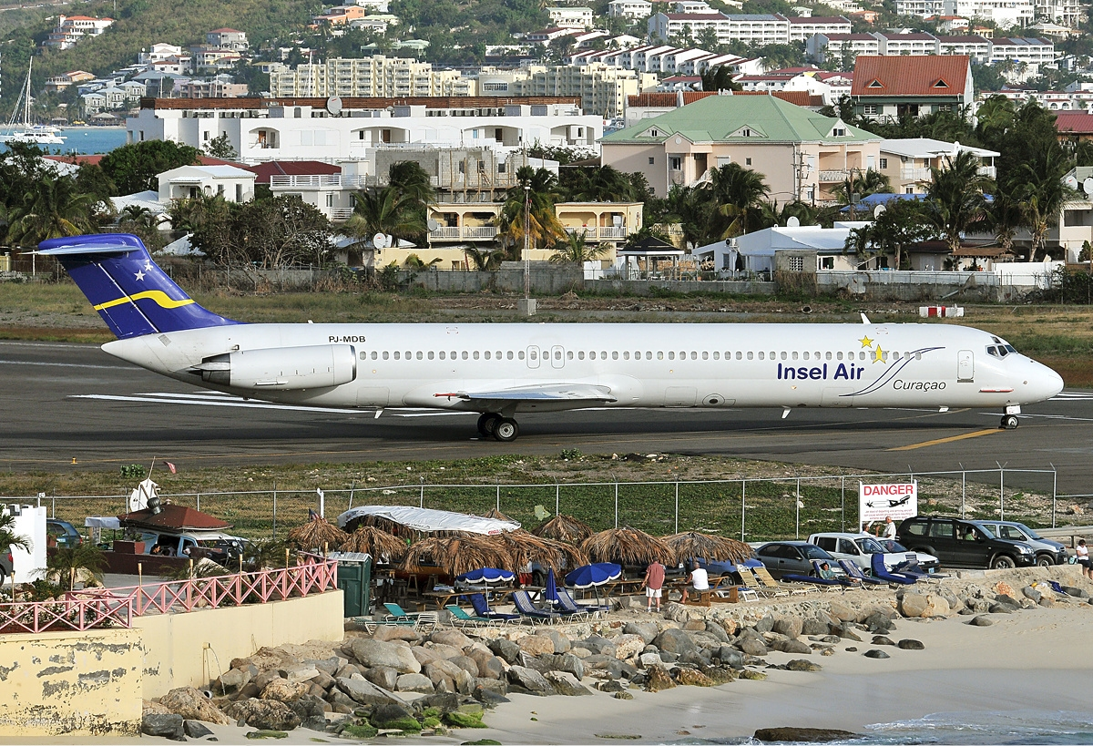 Insel Air McDonnell Douglas MD-82